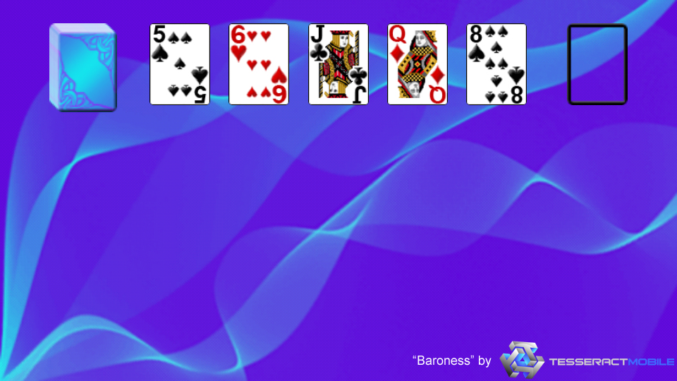 This image is a screenshot of the solitaire game "Baroness". More information about this game and this photo can be found here